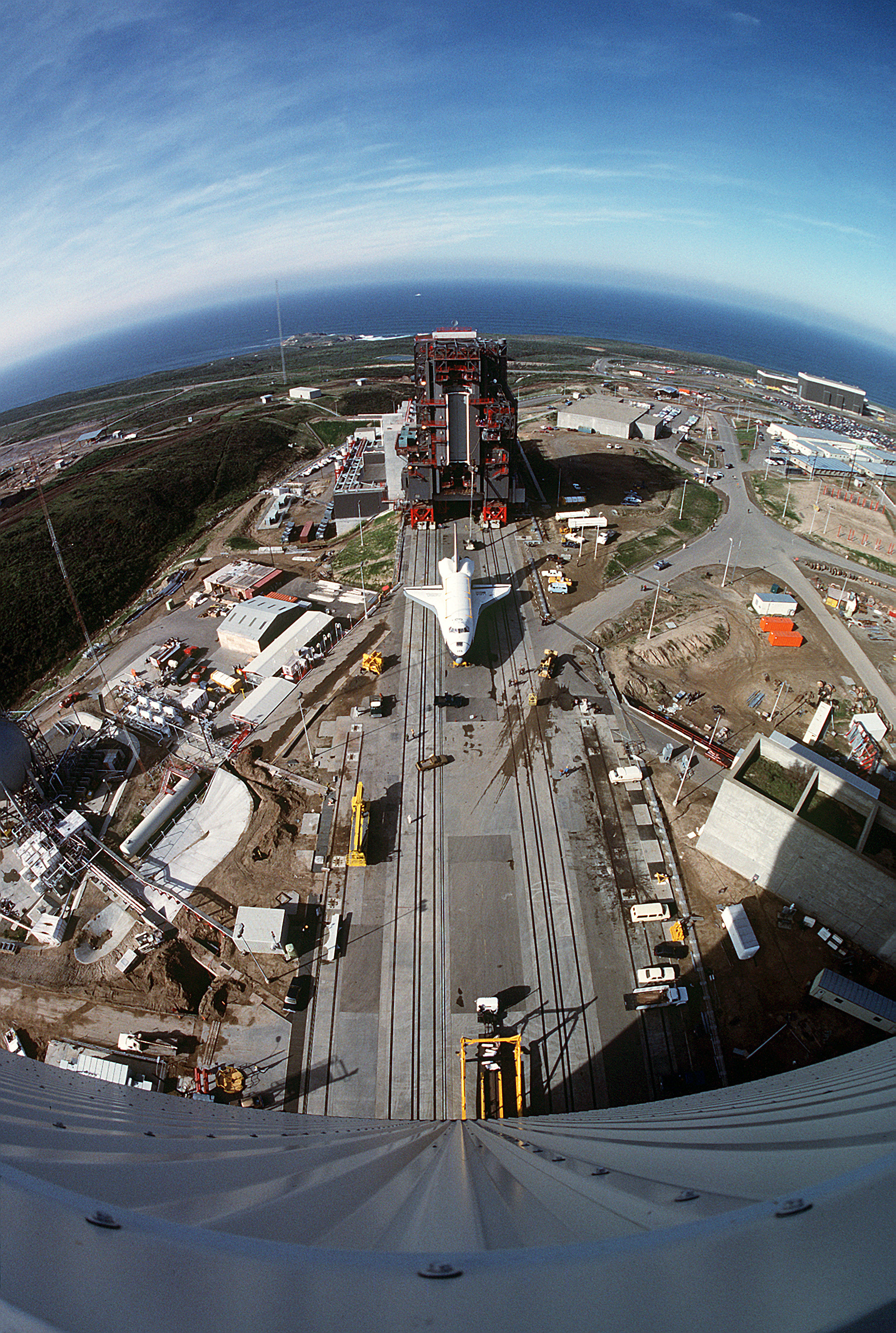 An overhead view of the Space Shuttle Enterprise moving toward the shuttle assembly building at Vanderberg Air Force Base Space Launch Complex Six aboard its specially-designed 76-wheel transporter. Behind the shuttle are the payload changeout room and the payload preparation room.